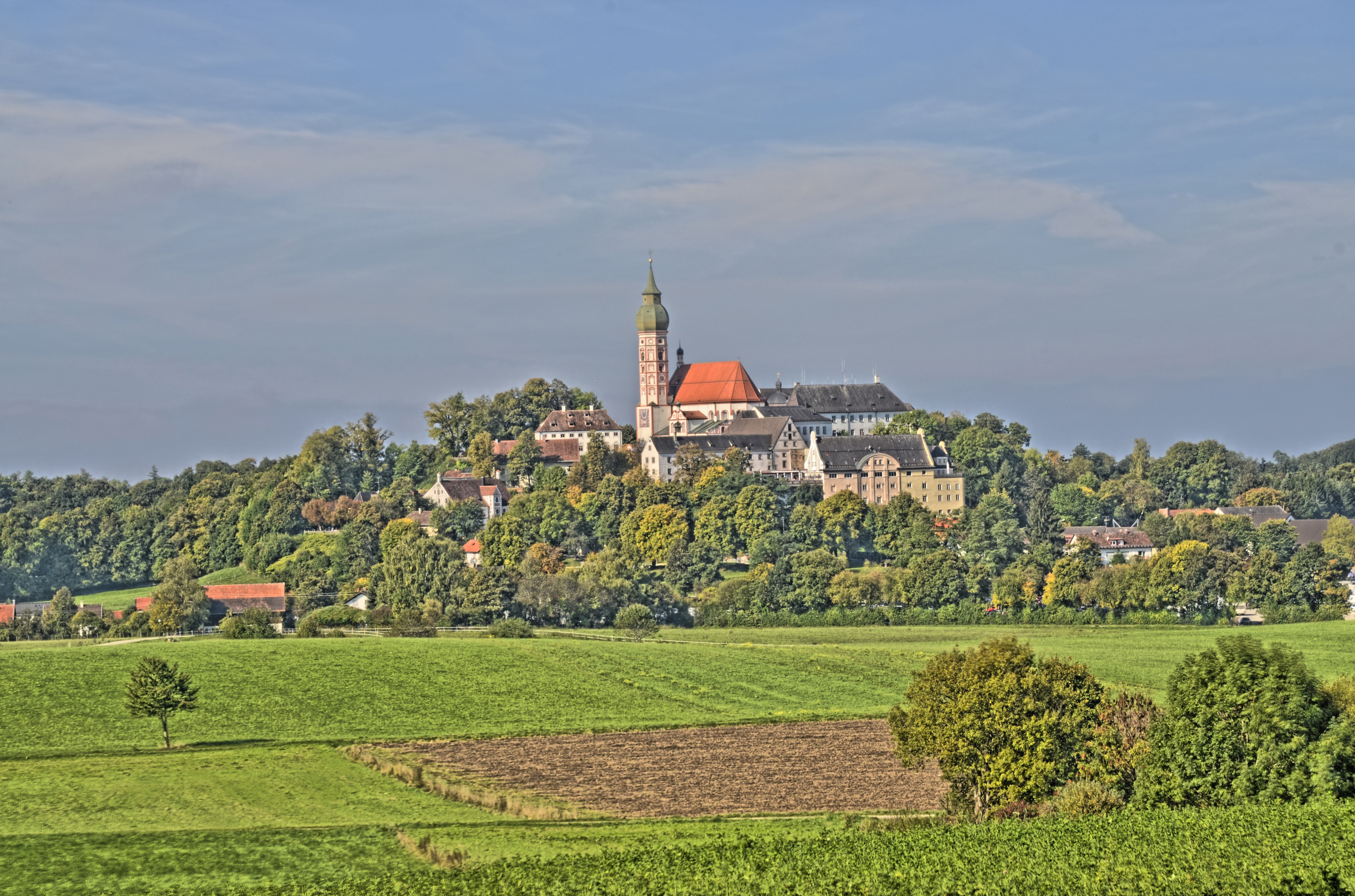 Monastery of Andechs (Bavaria) - HDR Image of 5 Pictures